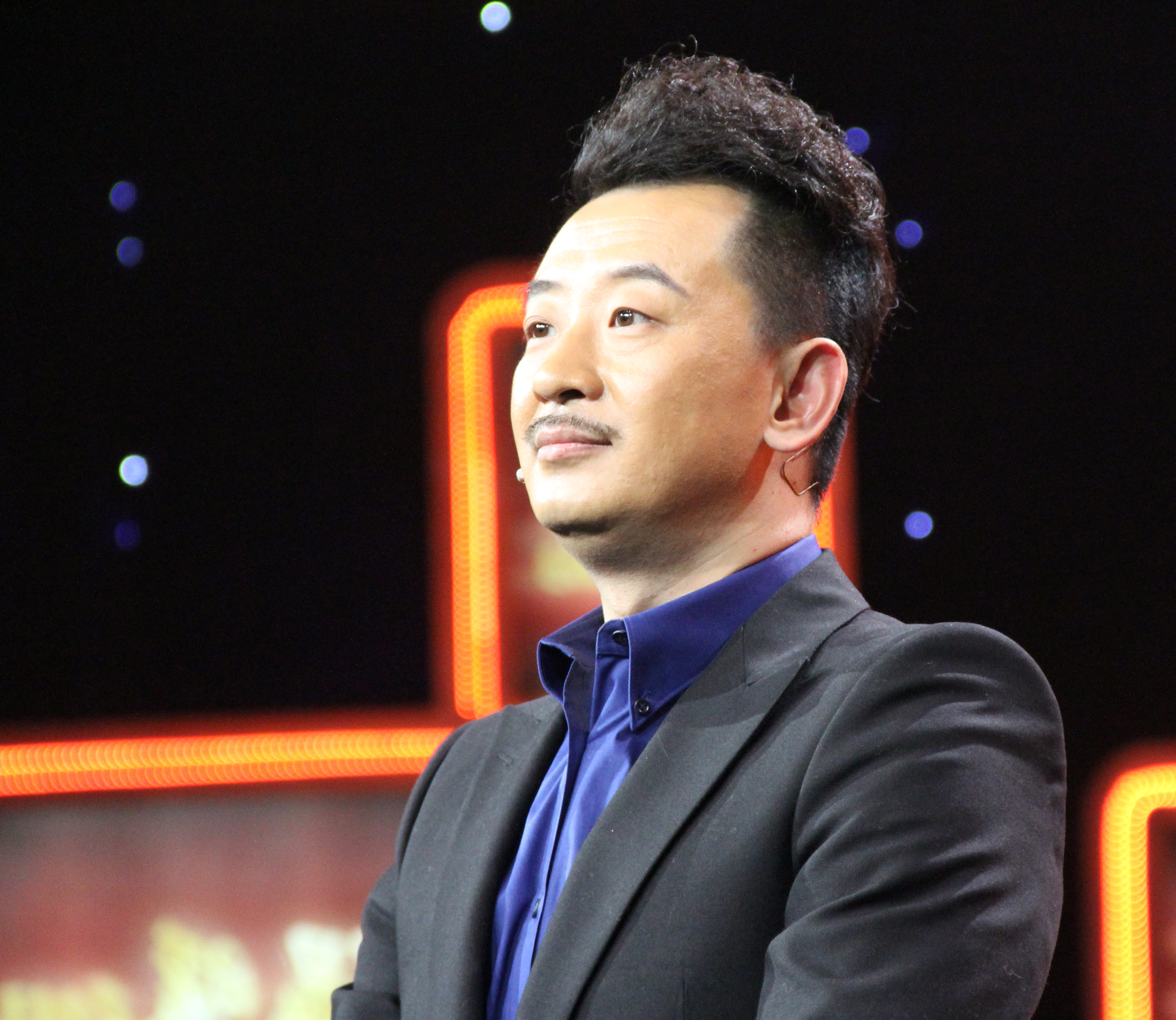 Edited from File:Art Life 2013 1211 IMG 3608.JPG.